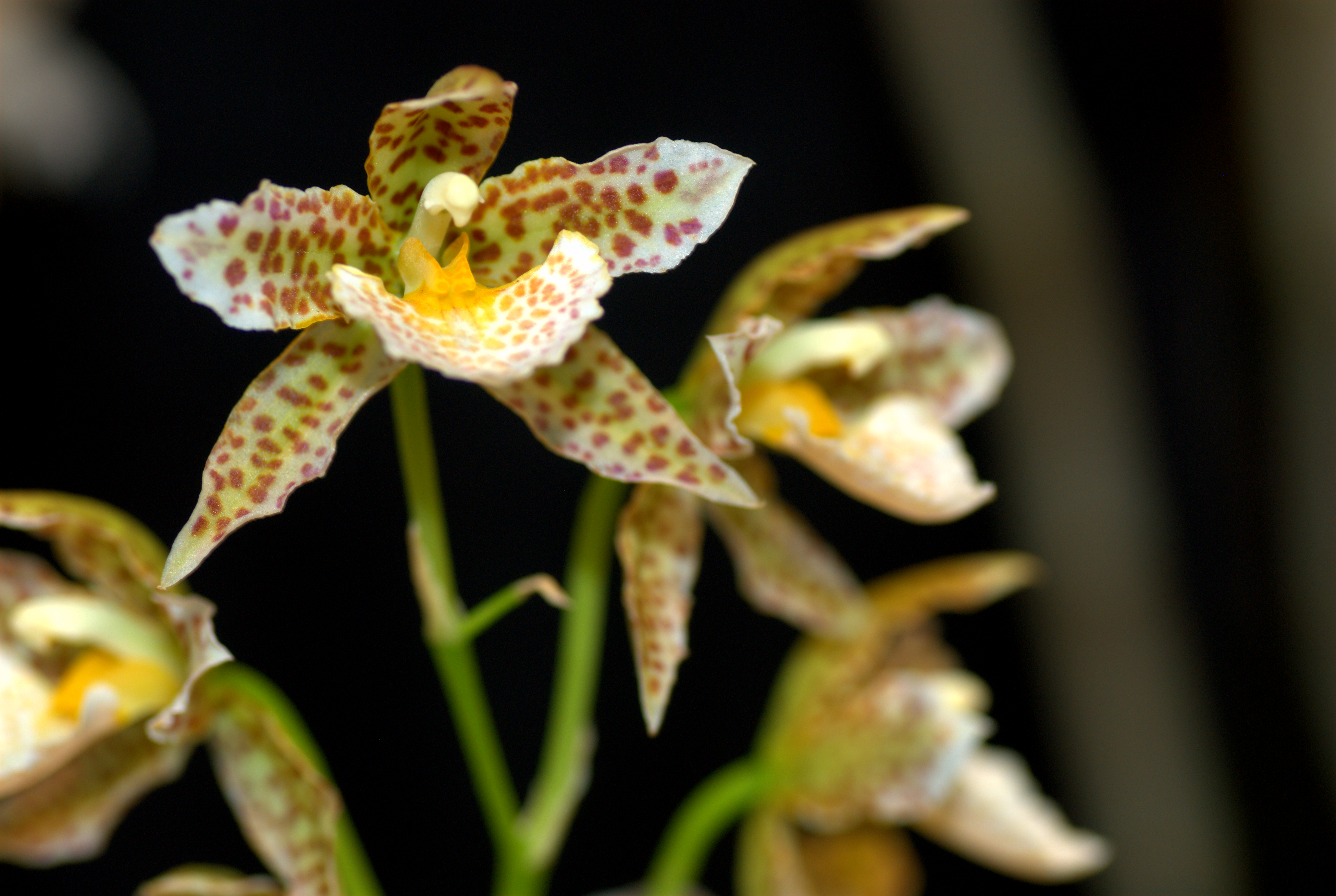 Rhynchostele Horst Janssen at the Pacific Orchid Exposition 2010.